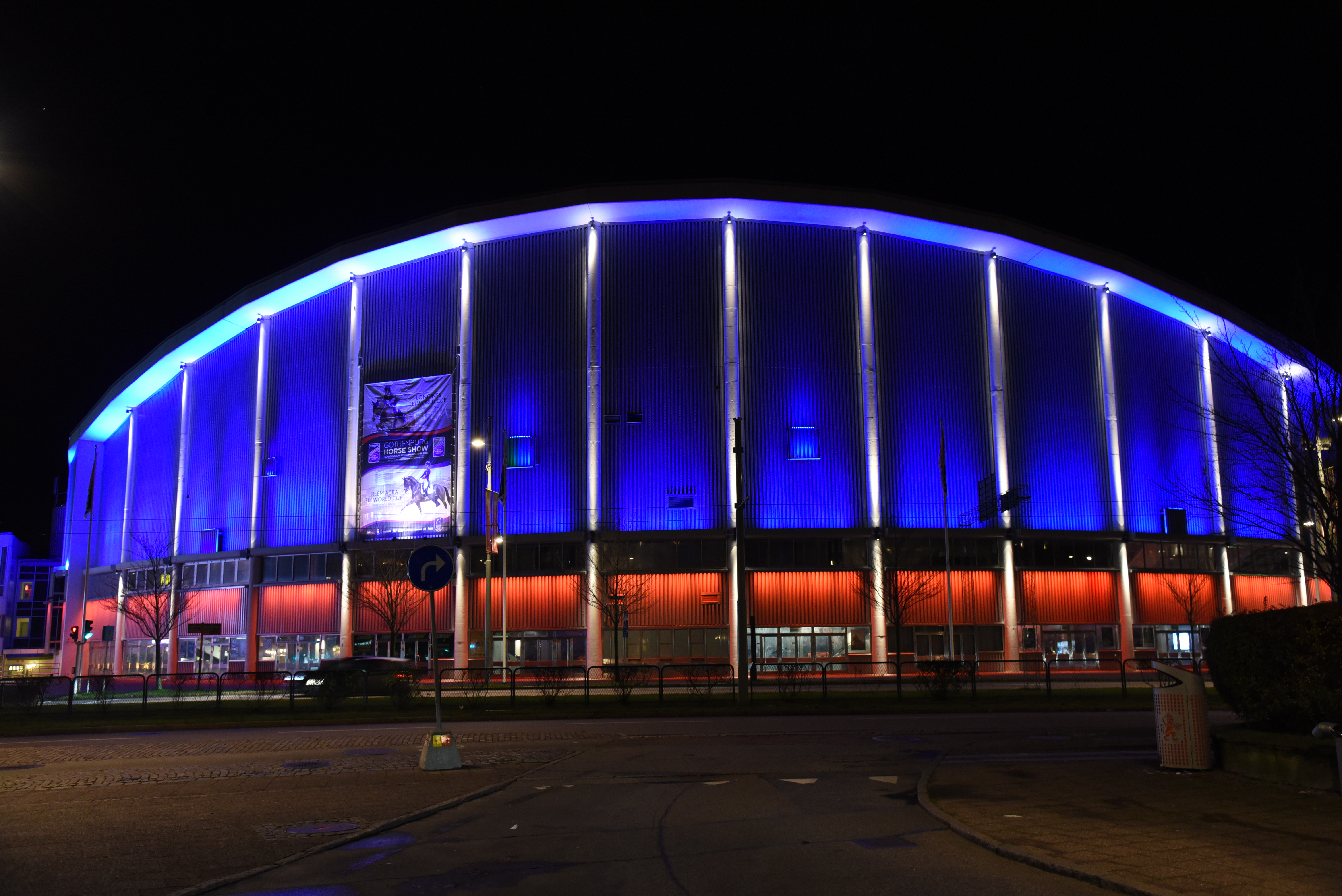 The Scandinavium arena in Gothenburg illuminated in French flag colours as memorial to the November 2015 Paris attacks.